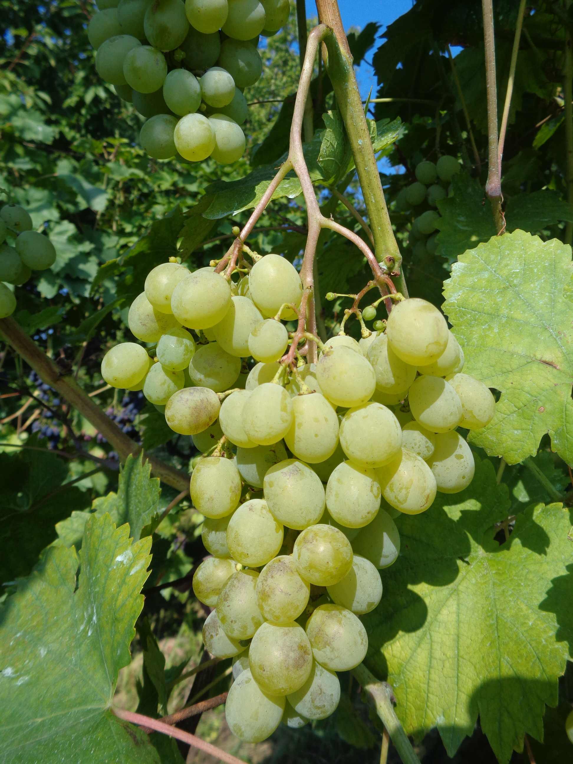 Muscat July white - early ripening table and wine grape variety, grown in Medjimurje County, northern Croatia (vintage 2015)